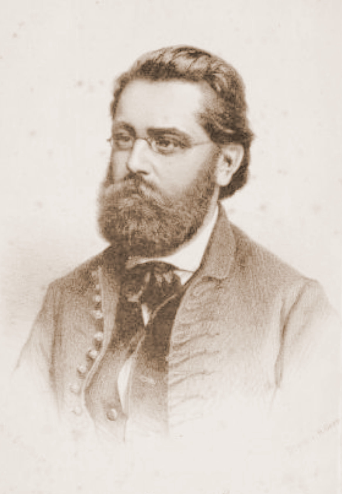 Old photo